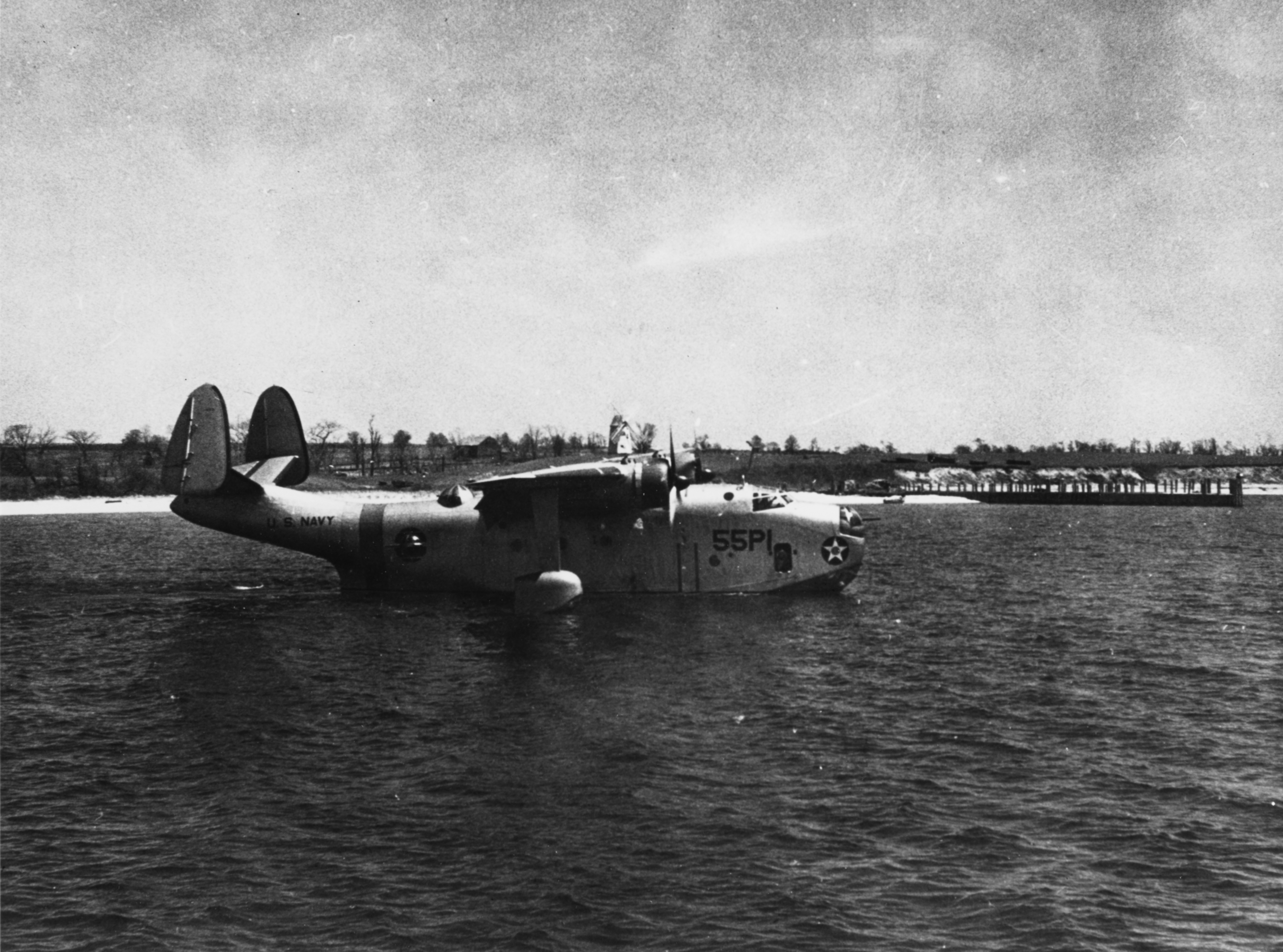 A U.S. Navy Martin PBM-1 Mariner patrol bomber of Patrol Squadron 55 (VP-55) floating offshore in 1941. This was the squadron commander's aircraft and one of the first PBM-1s assigned to the fleet.